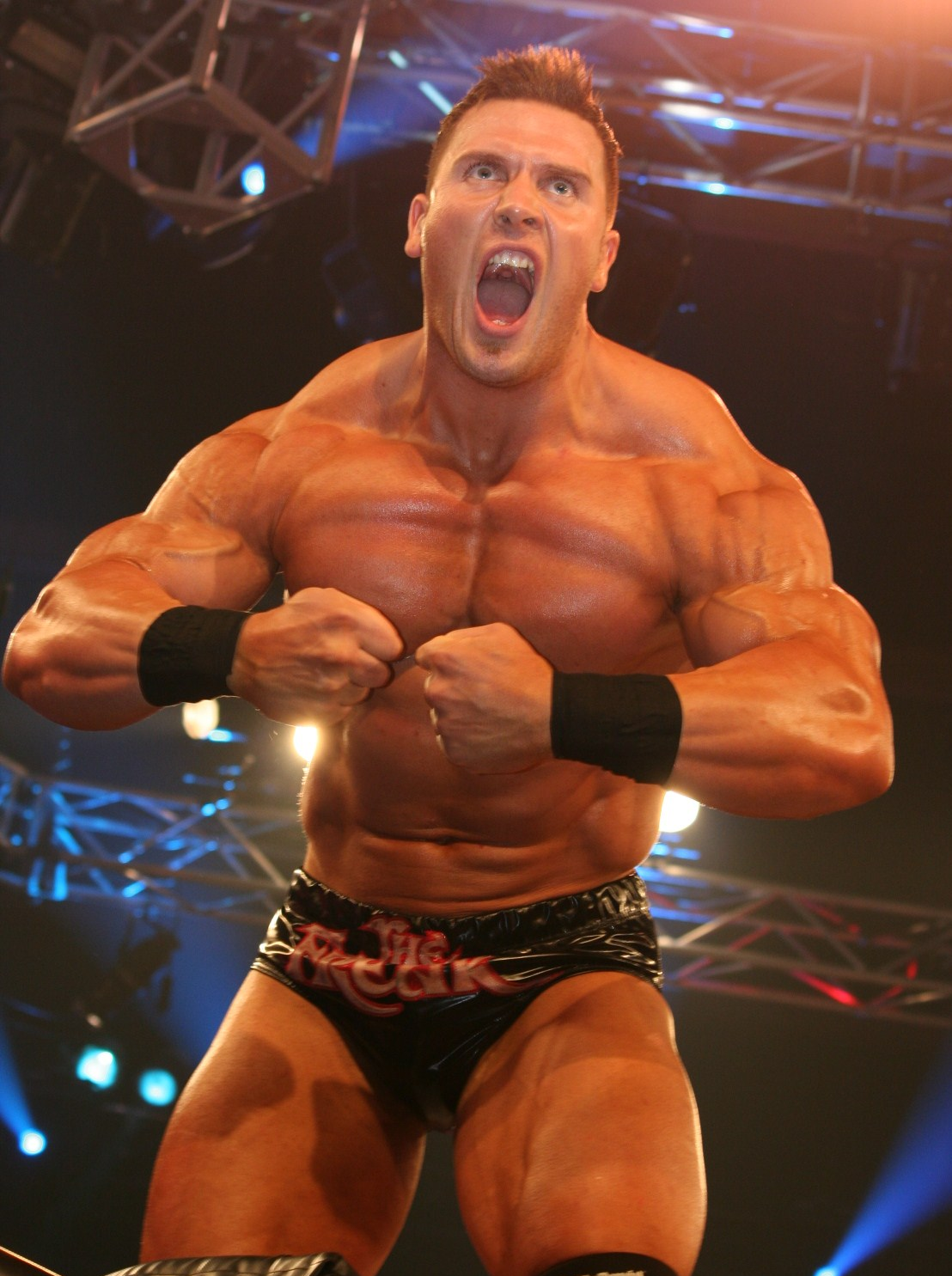 Professional wrestler Rob Terry at a TNA Impact! taping